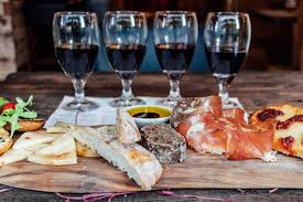 Wine flights